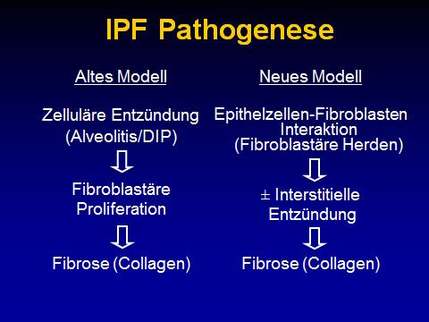 Concepts of IPF